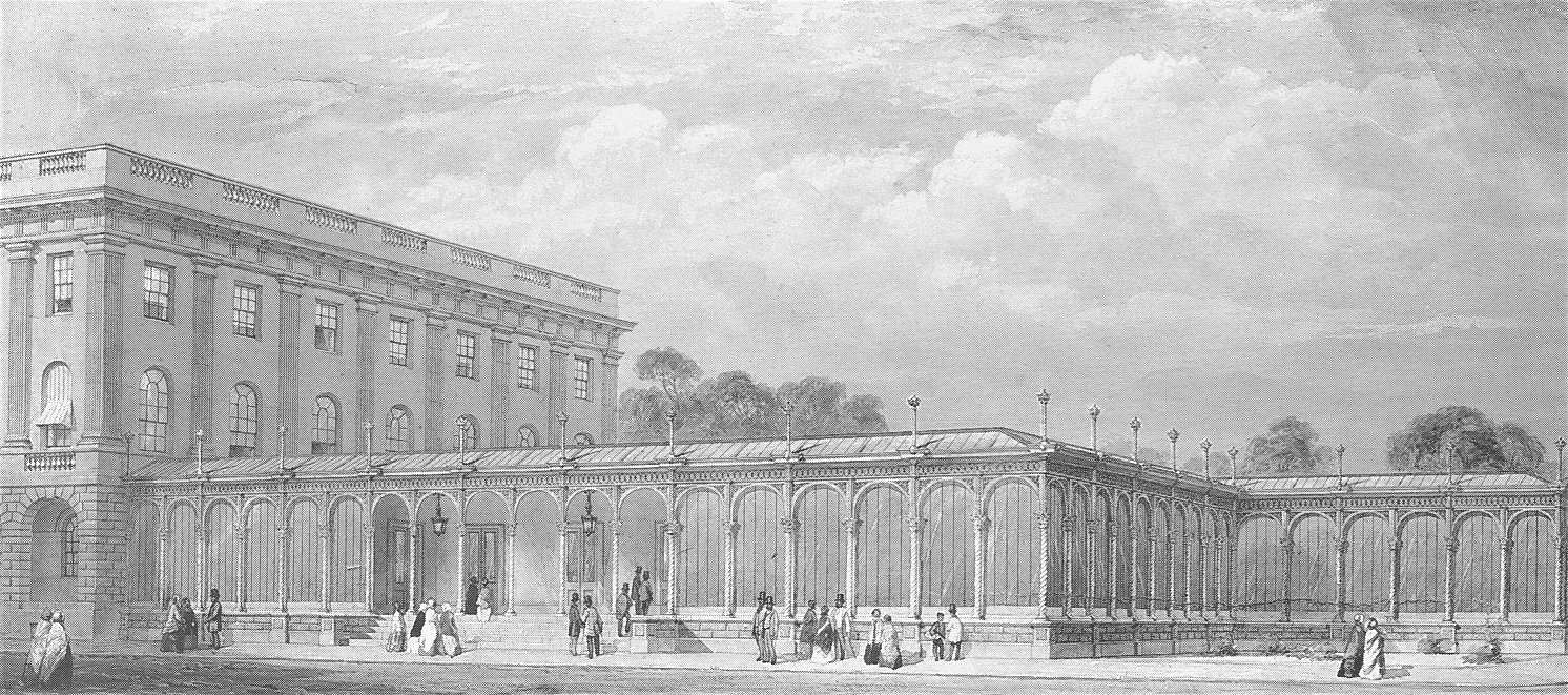 Buxton Thermal Baths by Henry Currey 1853